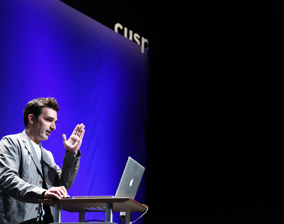 Christopher Simmons presenting at the Cusp Conference, Chicago IL September 2011